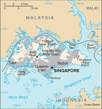 A map of Singapore from the CIA World Factbook with English labels.